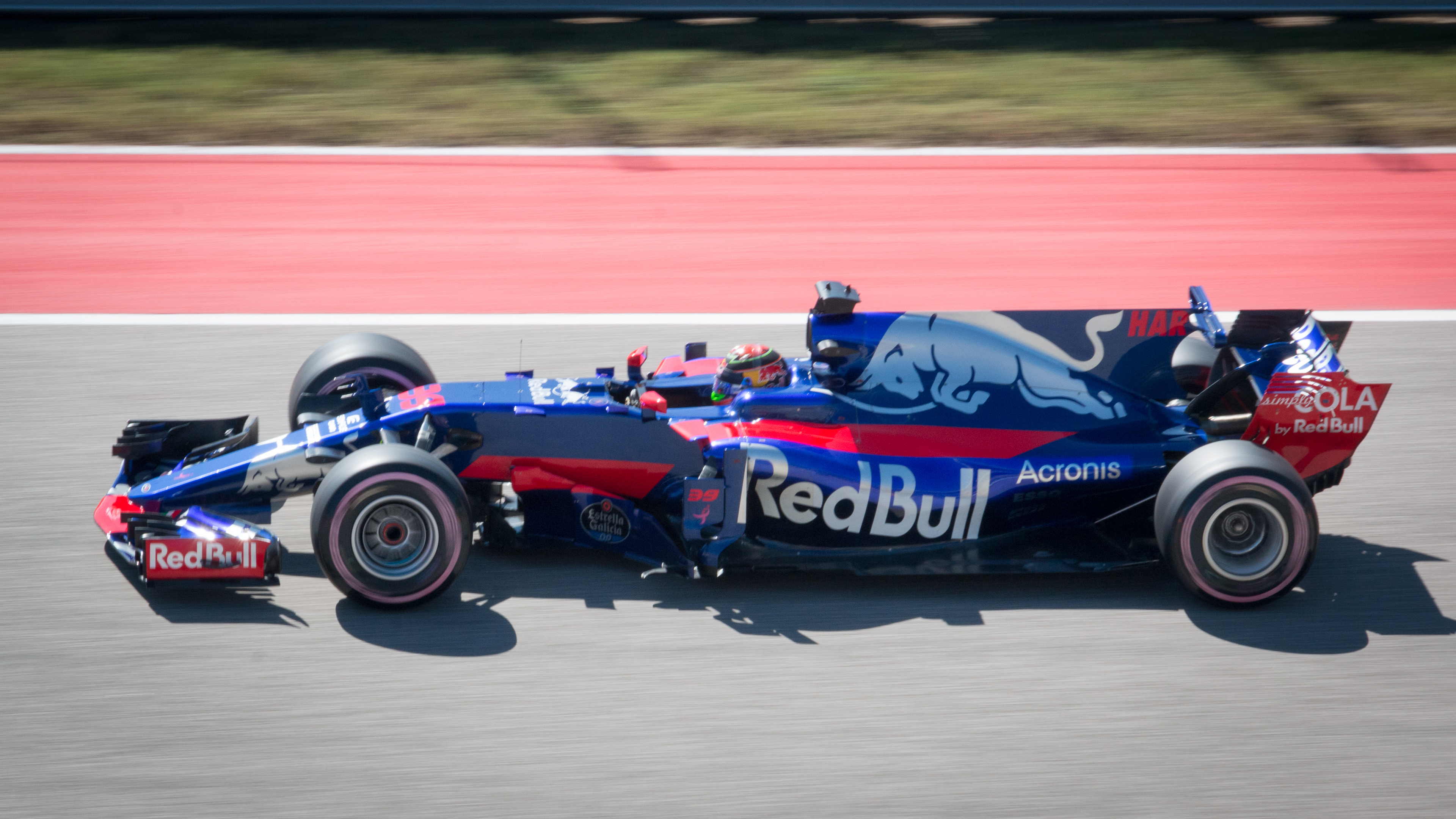 USGP Austin Oct 2017